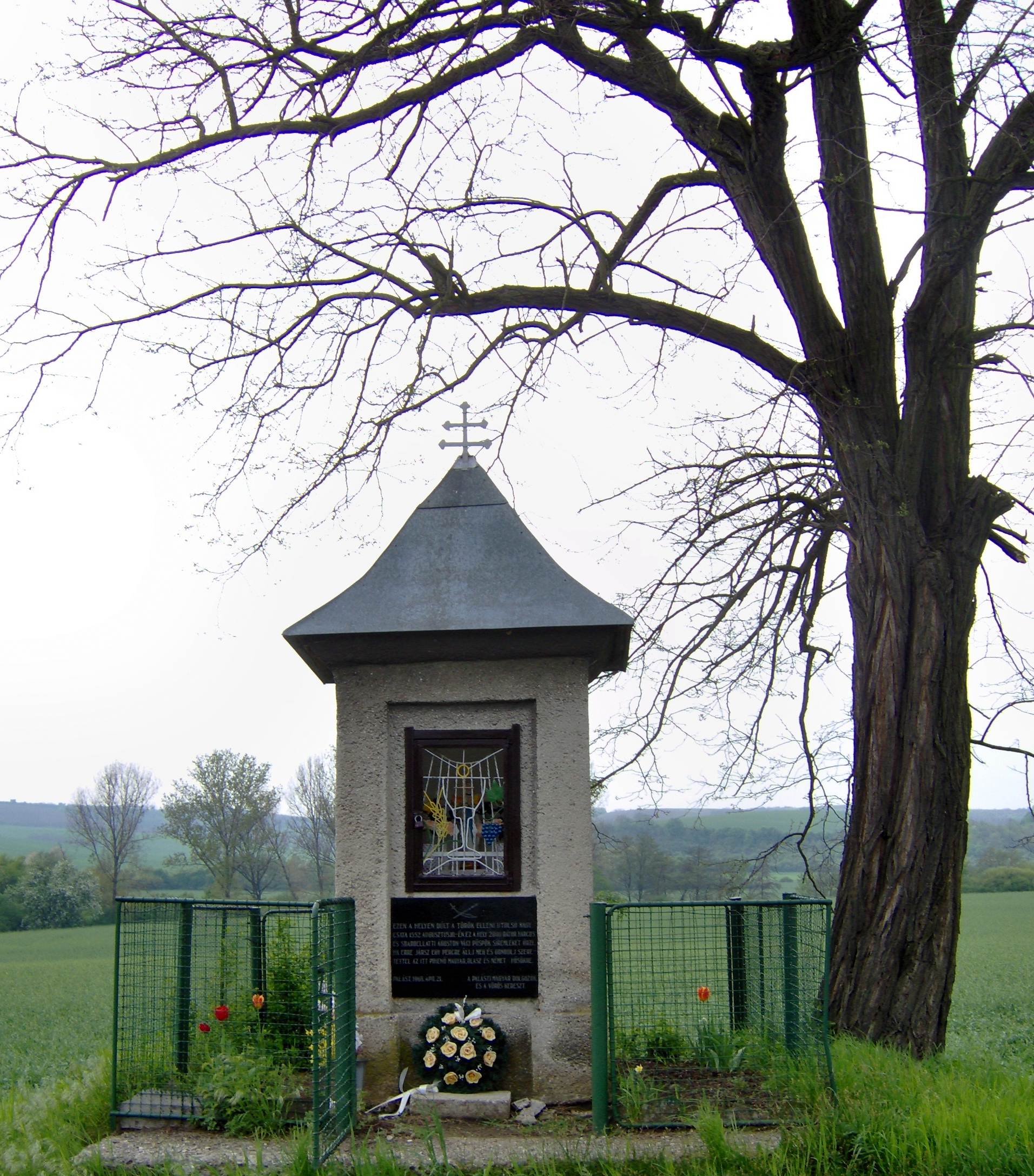 Plášťovce,chapel in the locality Turkish battle 1552, built in 1968